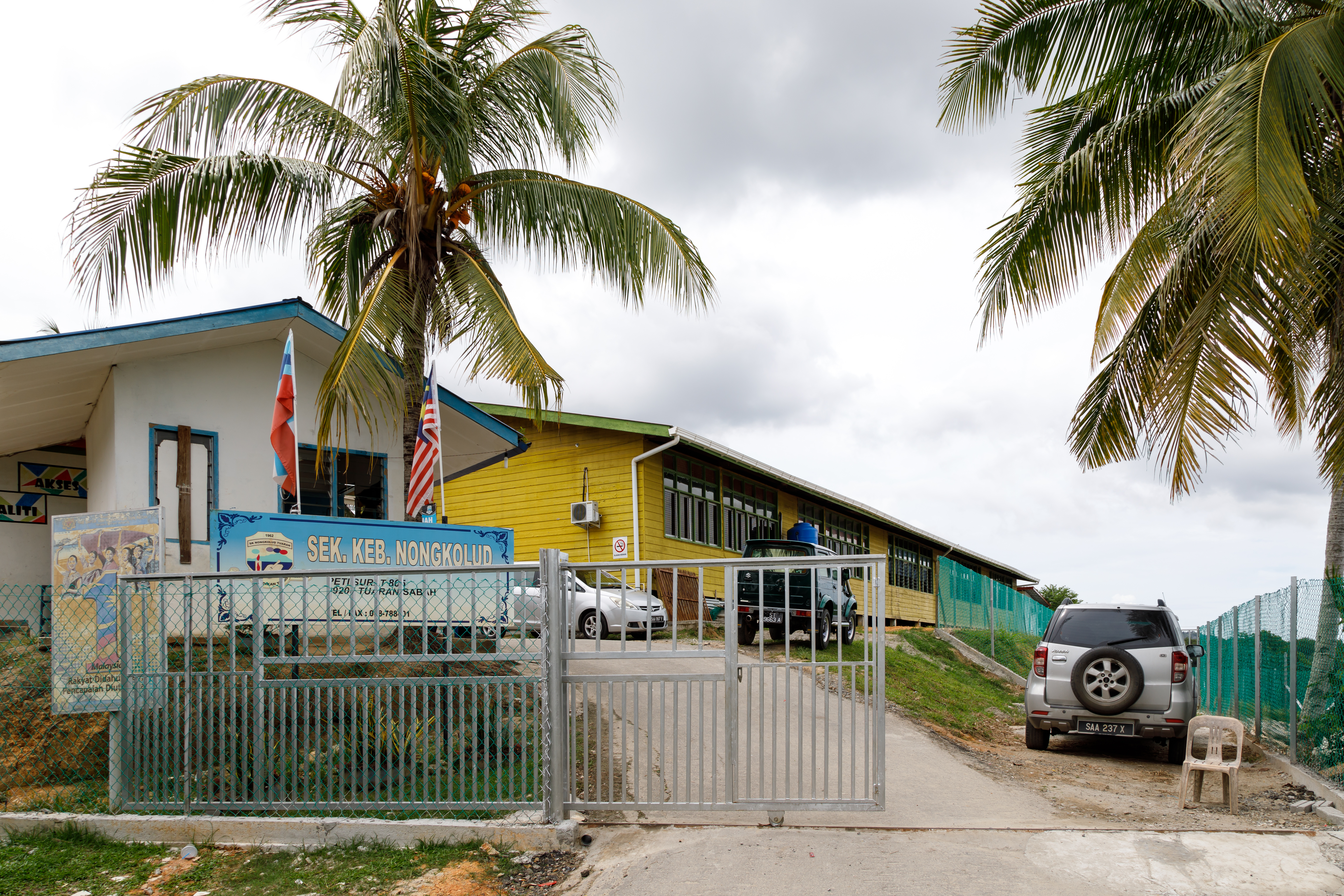 Nongkolud, Tuaran, Sabah, Malaysia: SK Nongkolud, a primary school in Sabah